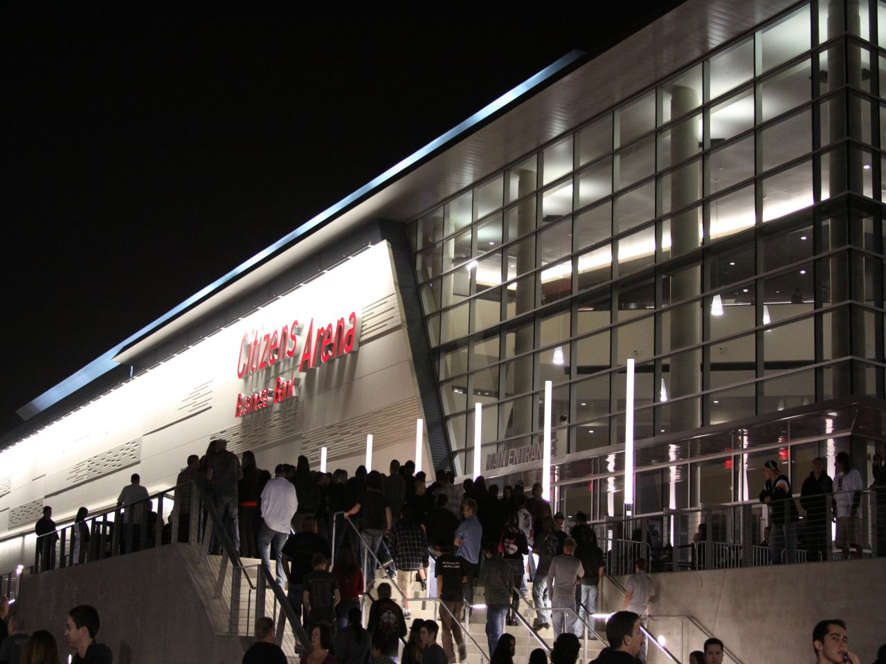 New Citizens Bank Arena in Ontario California